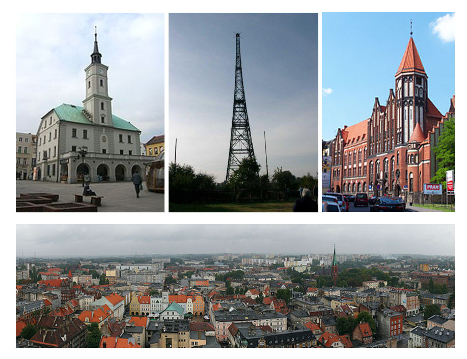 Collage of Gliwice